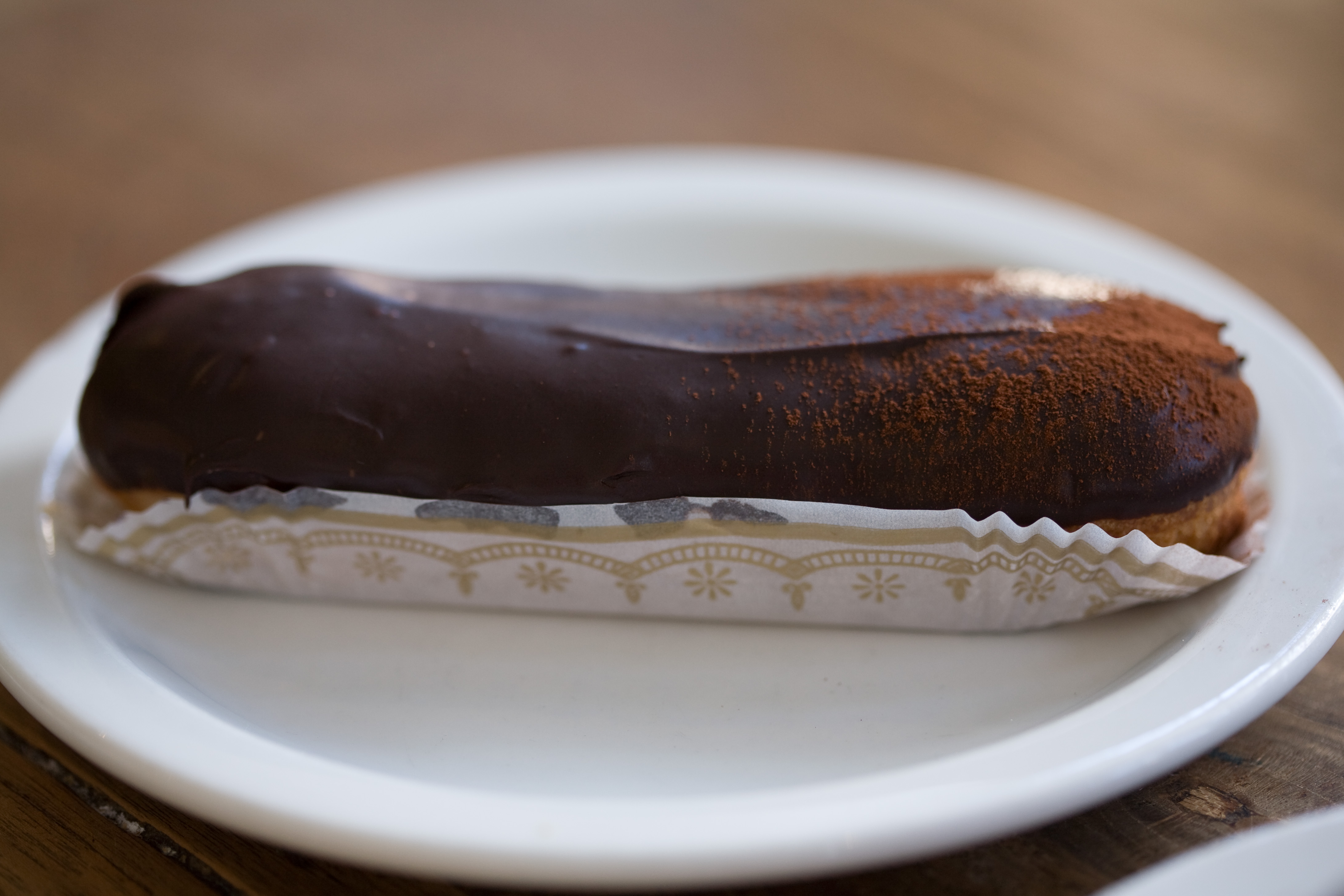 Eclair